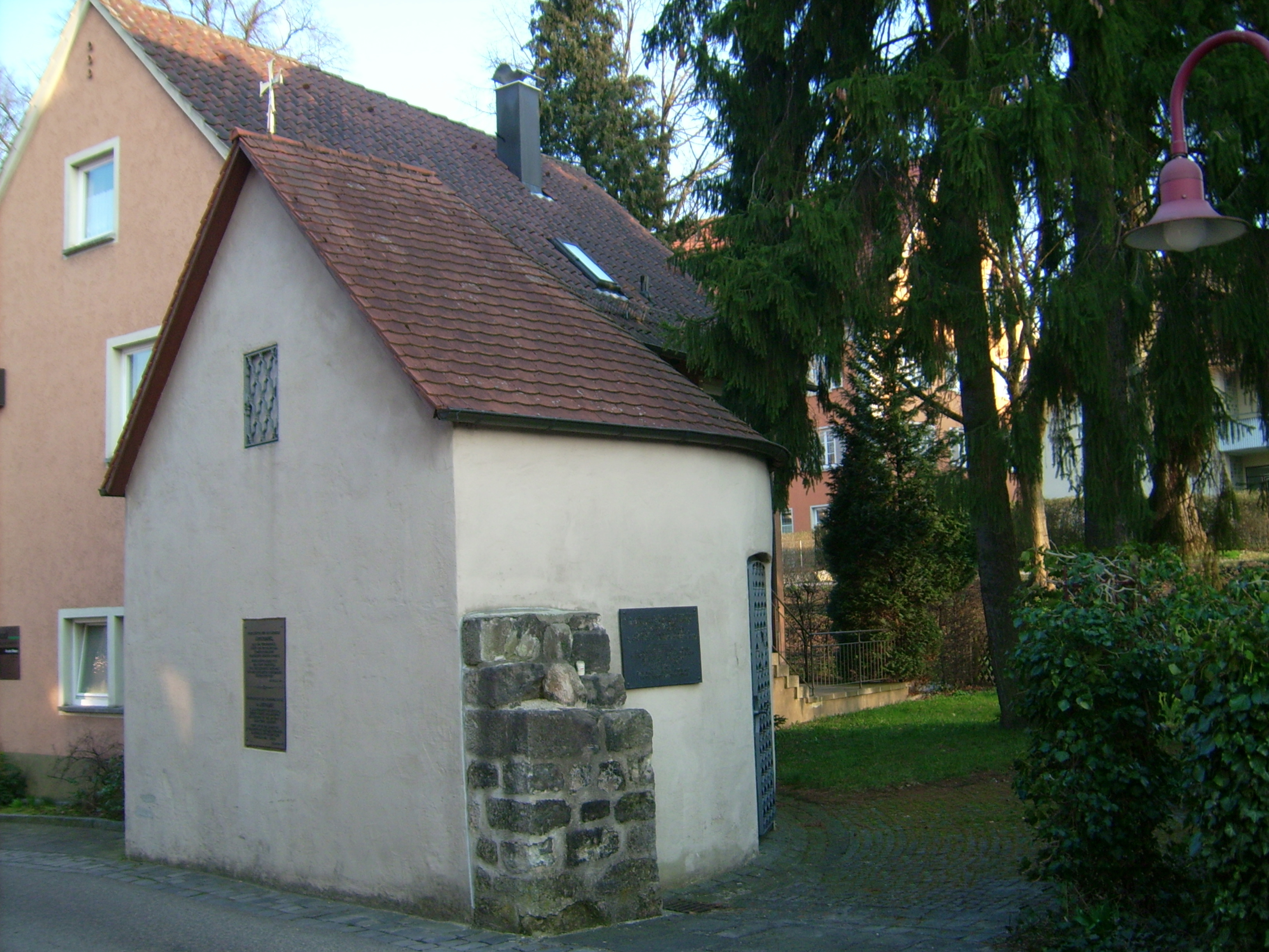 The Bulgarian chapel "Sain Cyril and Methodius" in Ellwangen, Germany